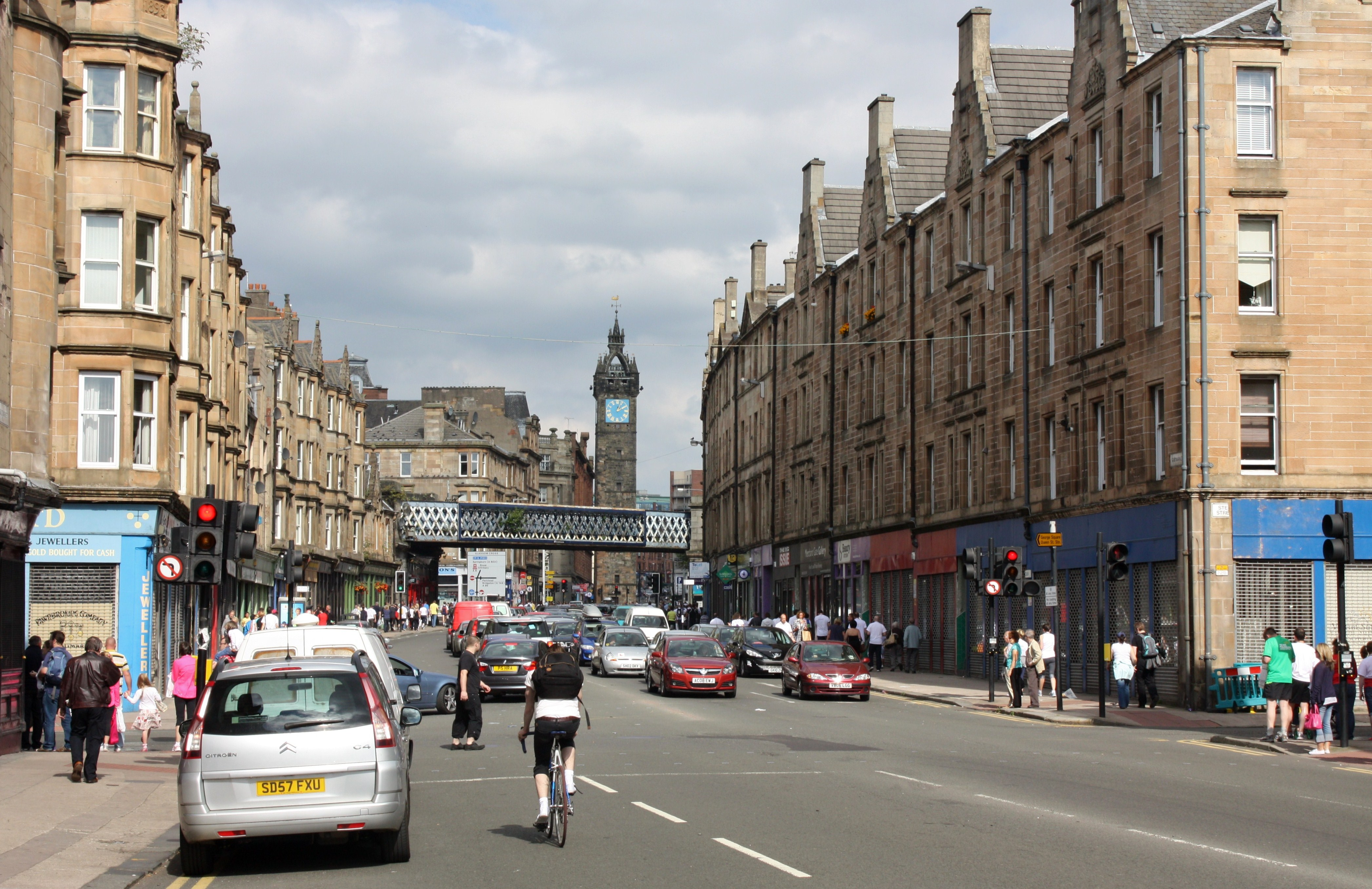 Looking up Saltmarket towards Tolbooth Steeple at Glasgow Cross. Merchant City, Glasgow, Scotland.